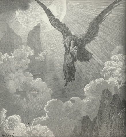 Purgatory (Purgatorio) illustration by Gustave Dore.